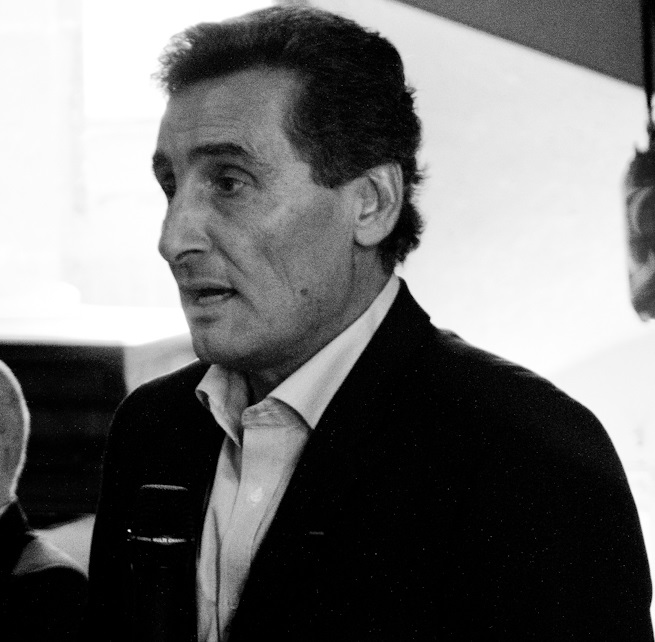 Mohed ALTRAD, cropped image of File:Mohed ALTRAD - riac 2012 - 20505 - 01 septembre 2012.jpg